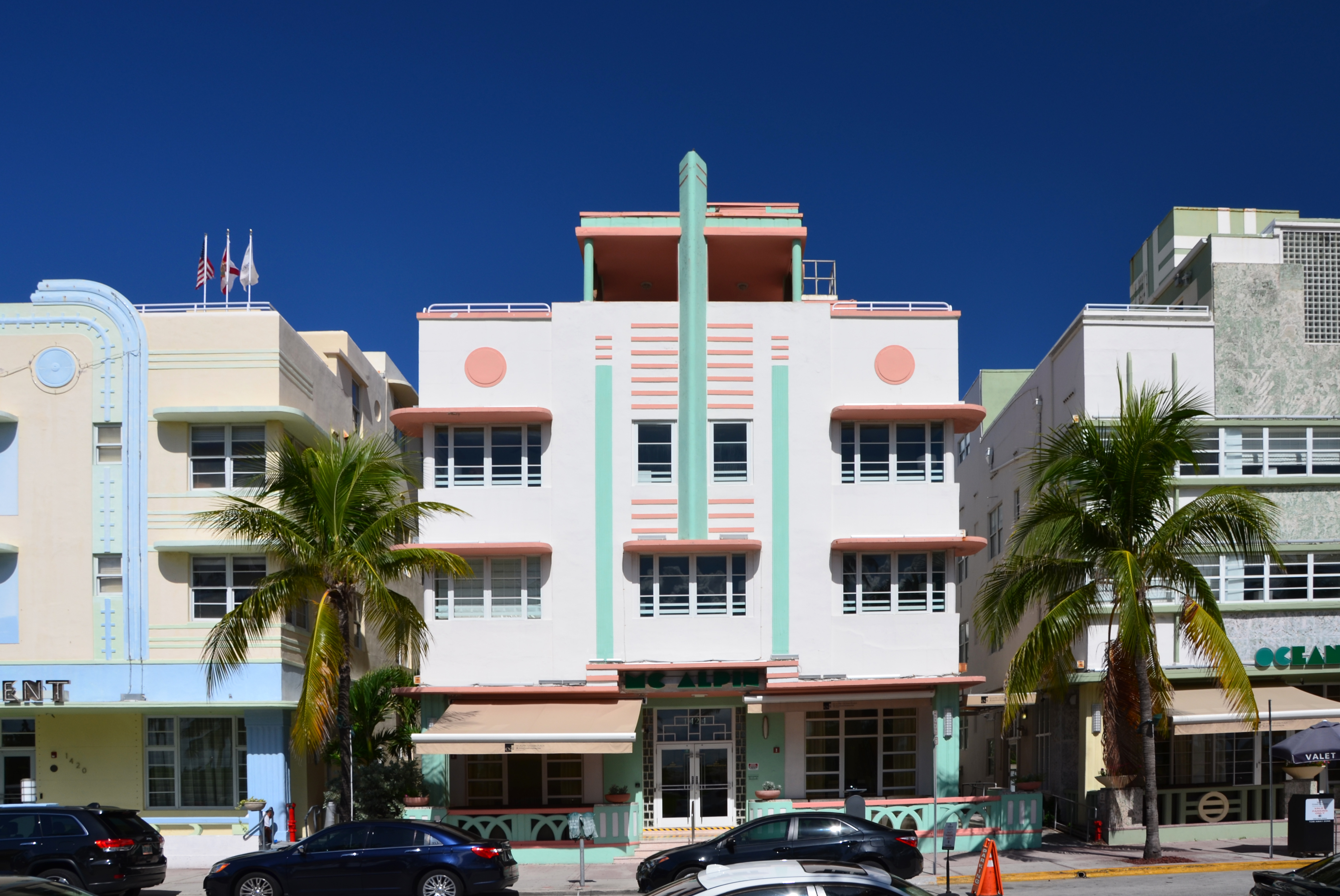 The McAlpin-Ocean Plaza hotel, of Art deco style, on Ocean Drive (Miami Beach, Florida, USA).